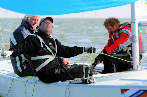 BAKKER, COSTER and HOUWELING Silver Soling at the 2008 Vintage Yachting Games